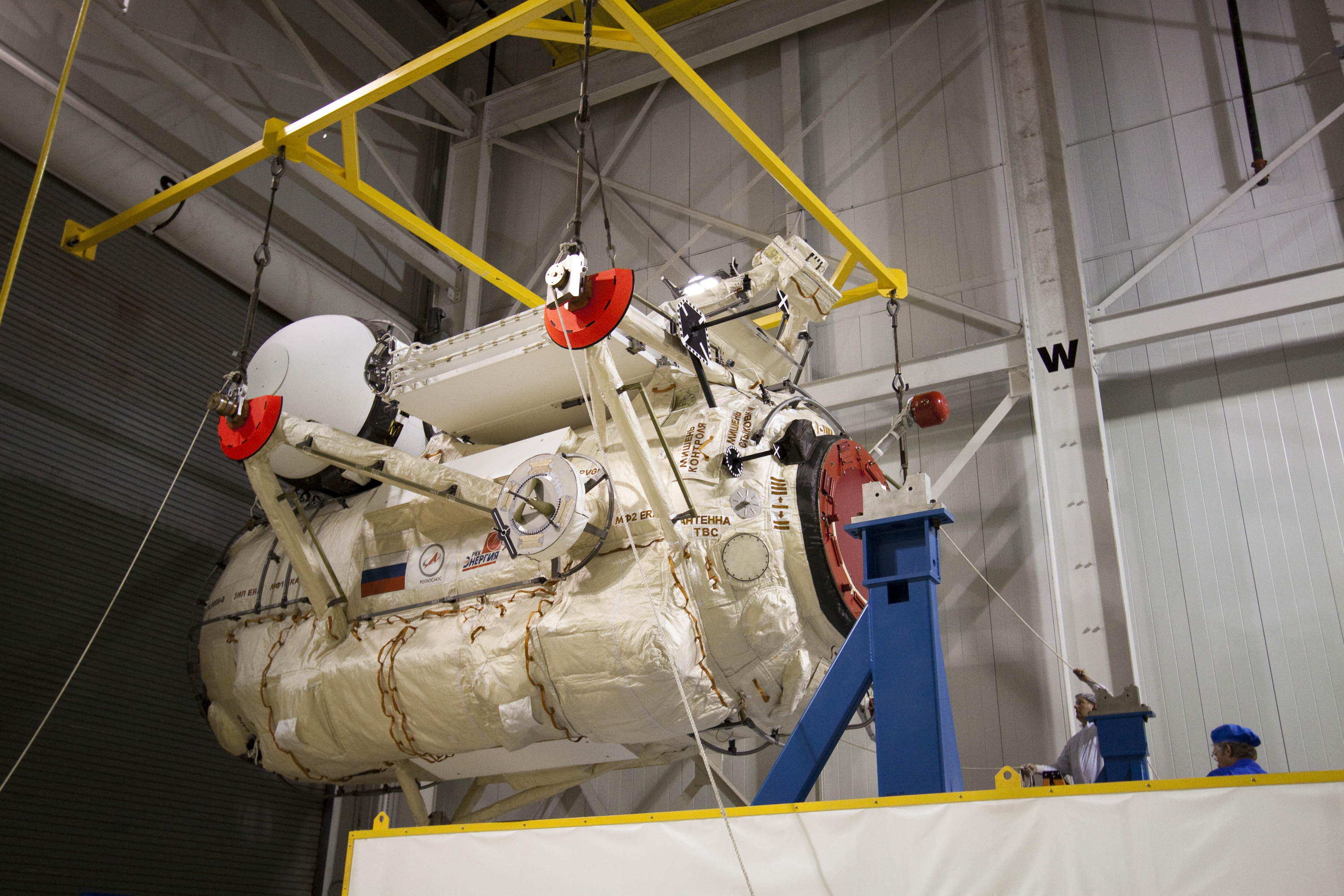 In the Astrotech payload processing facility at Port Canaveral, Fla., the Russian-built Mini-Research Module-1, or MRM-1, is lifted over the transportation container in which it will be moved to the Space Station Processing Facility at NASA's Kennedy Space Center. The six-member crew of space shuttle Atlantis' STS-132 mission will deliver an Integrated Cargo Carrier and the MRM-1, known as Rassvet, to the International Space Station. The second in a series of new pressurized components for Russia, MRM-1 will be permanently attached to the Earth-facing port of the Zarya control module. Rassvet, which translates to "dawn," will be used for cargo storage and will provide an additional docking port to the station. STS-132 is the 34th mission to the station and the 132nd shuttle mission overall. Launch is targeted for May 14.